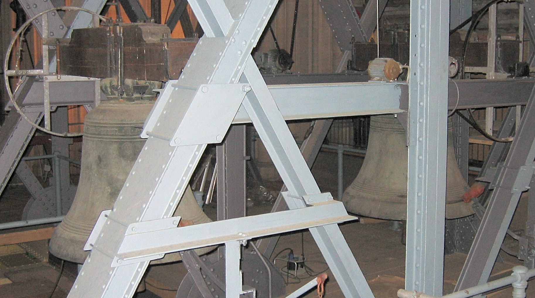 Description – Ave- und Kapitelsglocke (v.l.n.r.) des Kölner Domes. Source – own work Date – Sommer 2006 Author – Andreasdziewior